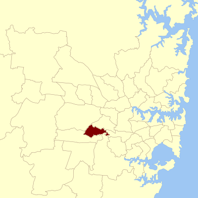 Location of the New South Wales Legislative Assembly electoral district within Sydney in New South Wales. Reference: [1]